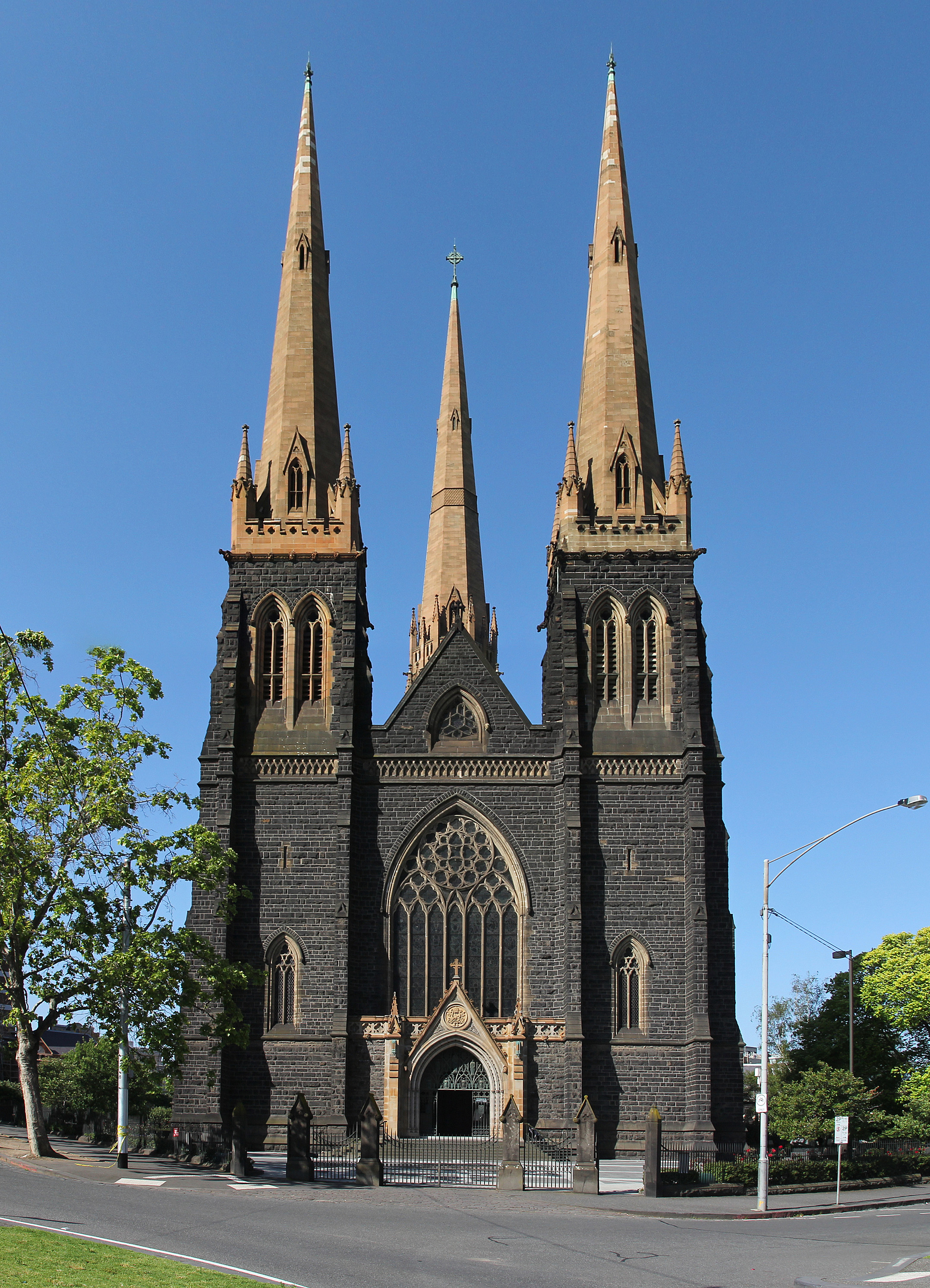 St Patrick's Cathedral Main Entrance & Southwest Facade, Melbourne